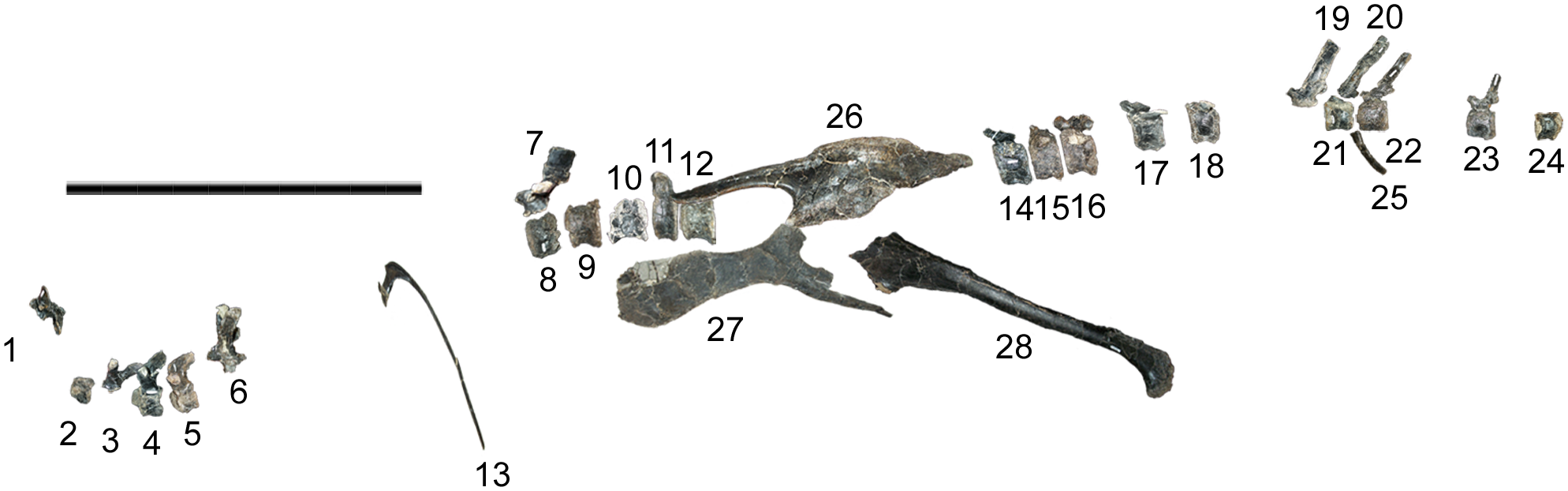 Fig 1. Preserved elements of FMNH PR 3847. Bones are arranged in an approximation of life position in left lateral view, using a skeletal reconstruction of Mantellisaurus atherfieldensis [62] as a template. Numbers correspond to table of measurements (S1 Table). Caudal cervical vertebra (4), caudal dorsal neural arch (7), right dorsal rib (13), two proximal caudal centra (17 and 18), left pubis (27, medial view), and right ischium (28) are reversed. Sacral ribs and more recently prepared dorsal vertebrae are not shown. Scale bar equals 1 meter.